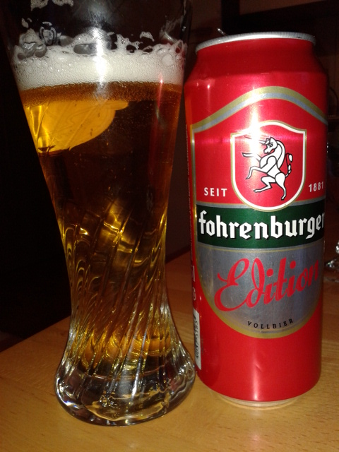 Fohrenburger Beer (.50 liter can + unrelated glass)